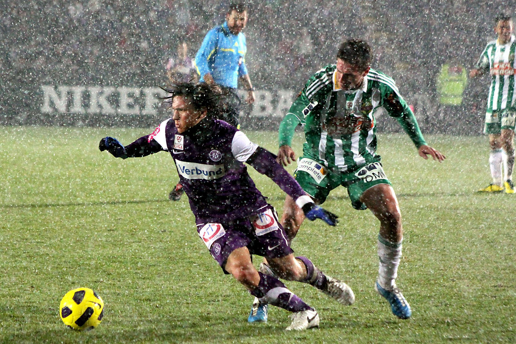 Derby of Vienna - FK Austria Wien vs. SK Rapid Wien 0:1 – Marko Stanković vs. René Gartler